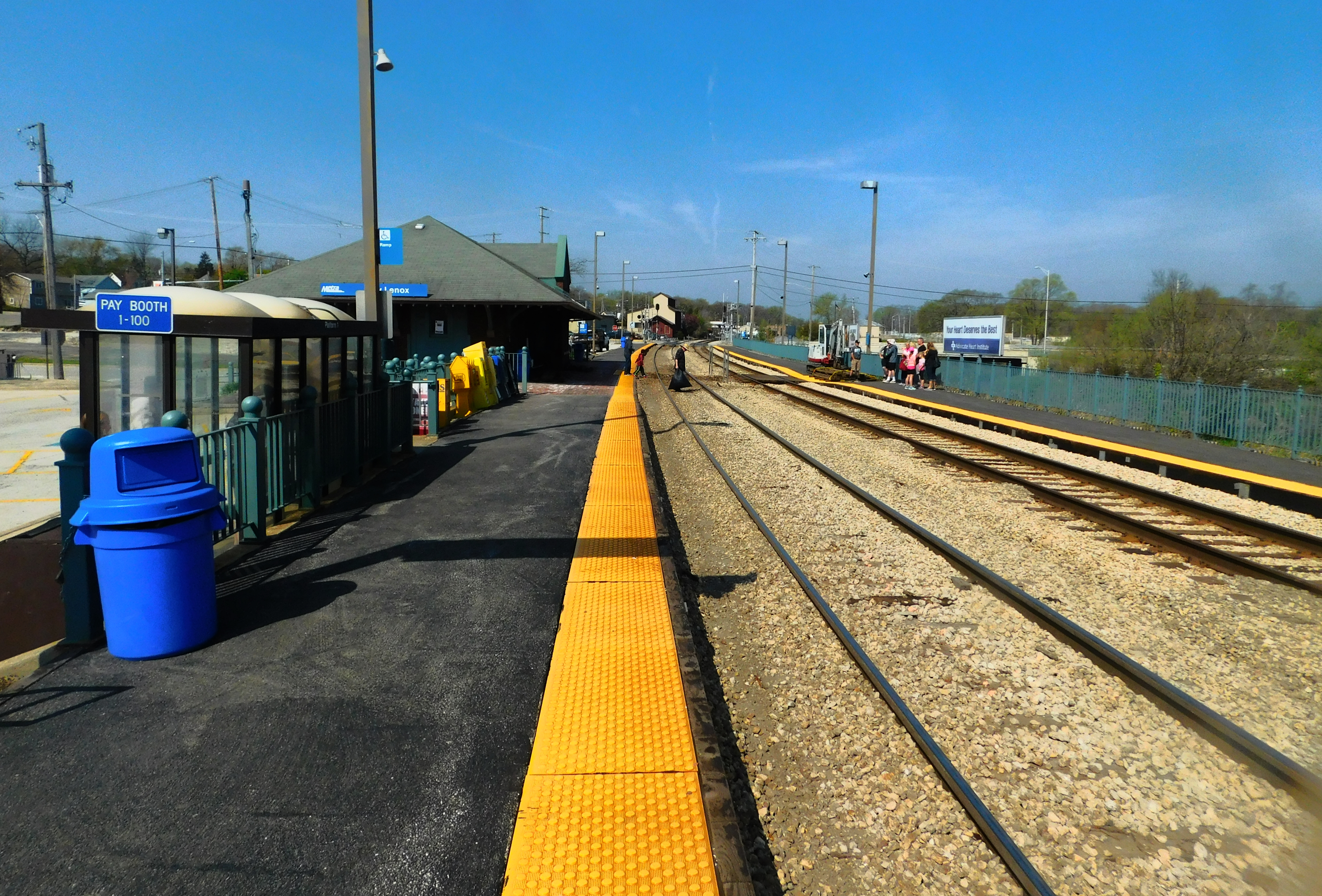 New Lenox station of Metra's Rock Island District.